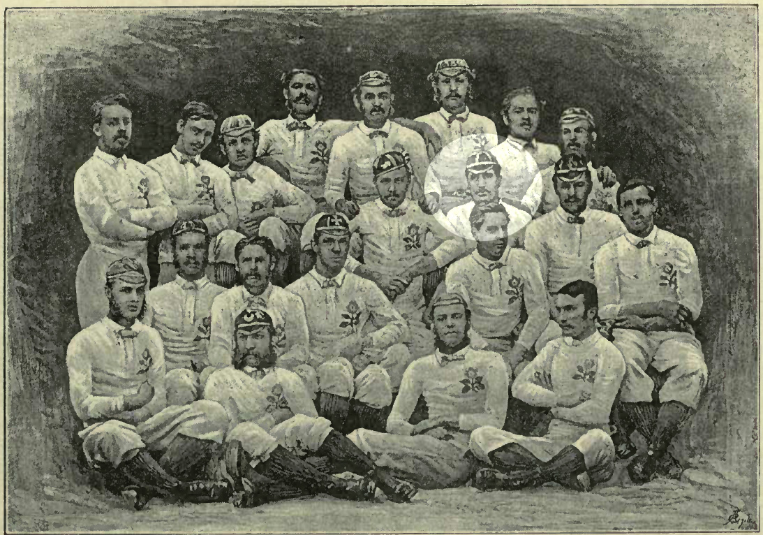 A picture of the first England rugby side in 1871, with players from the Clapham Rovers Football Club highlighted.